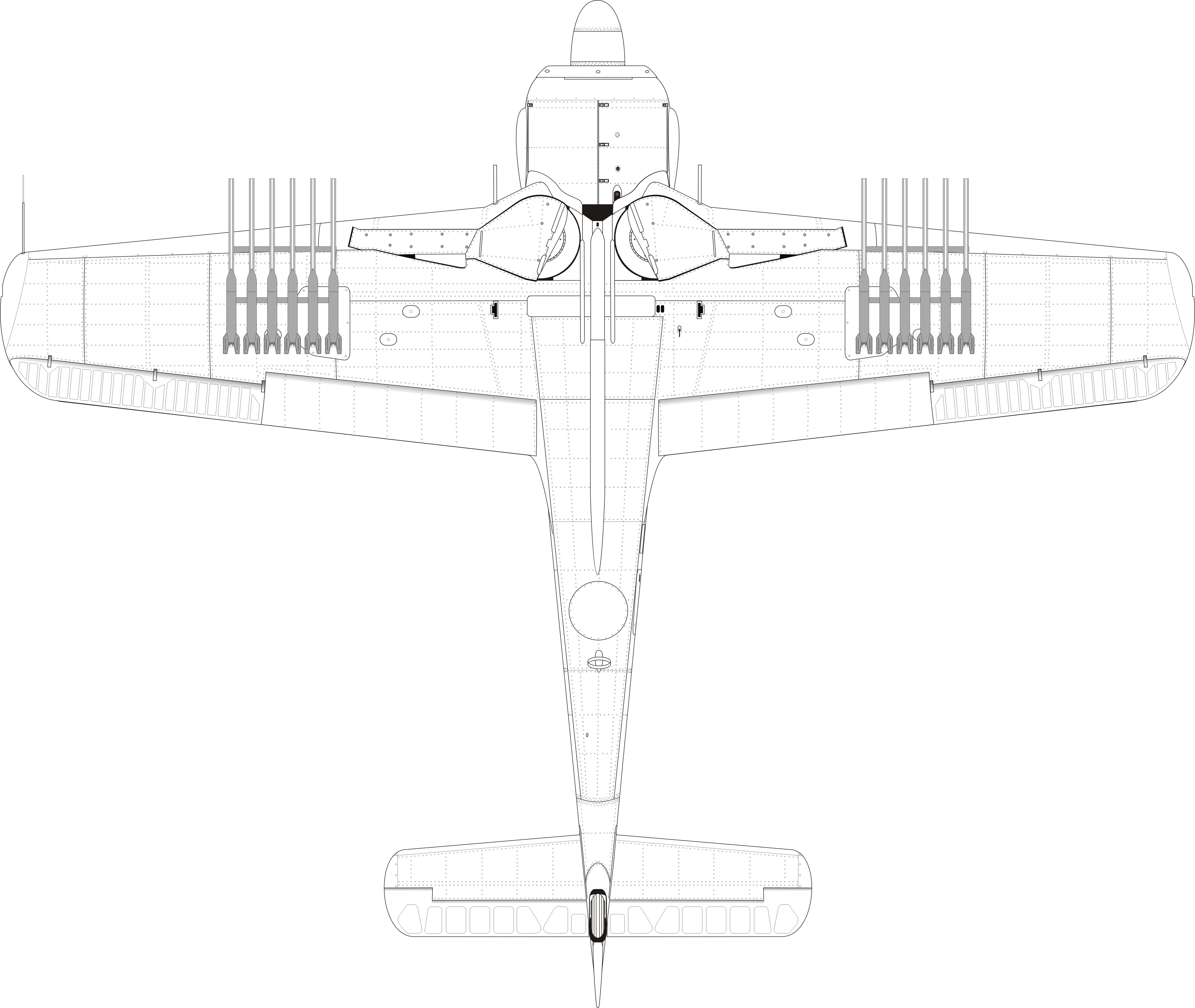 Under side view of Fw 190 with Panzerblitz 1 rockets.